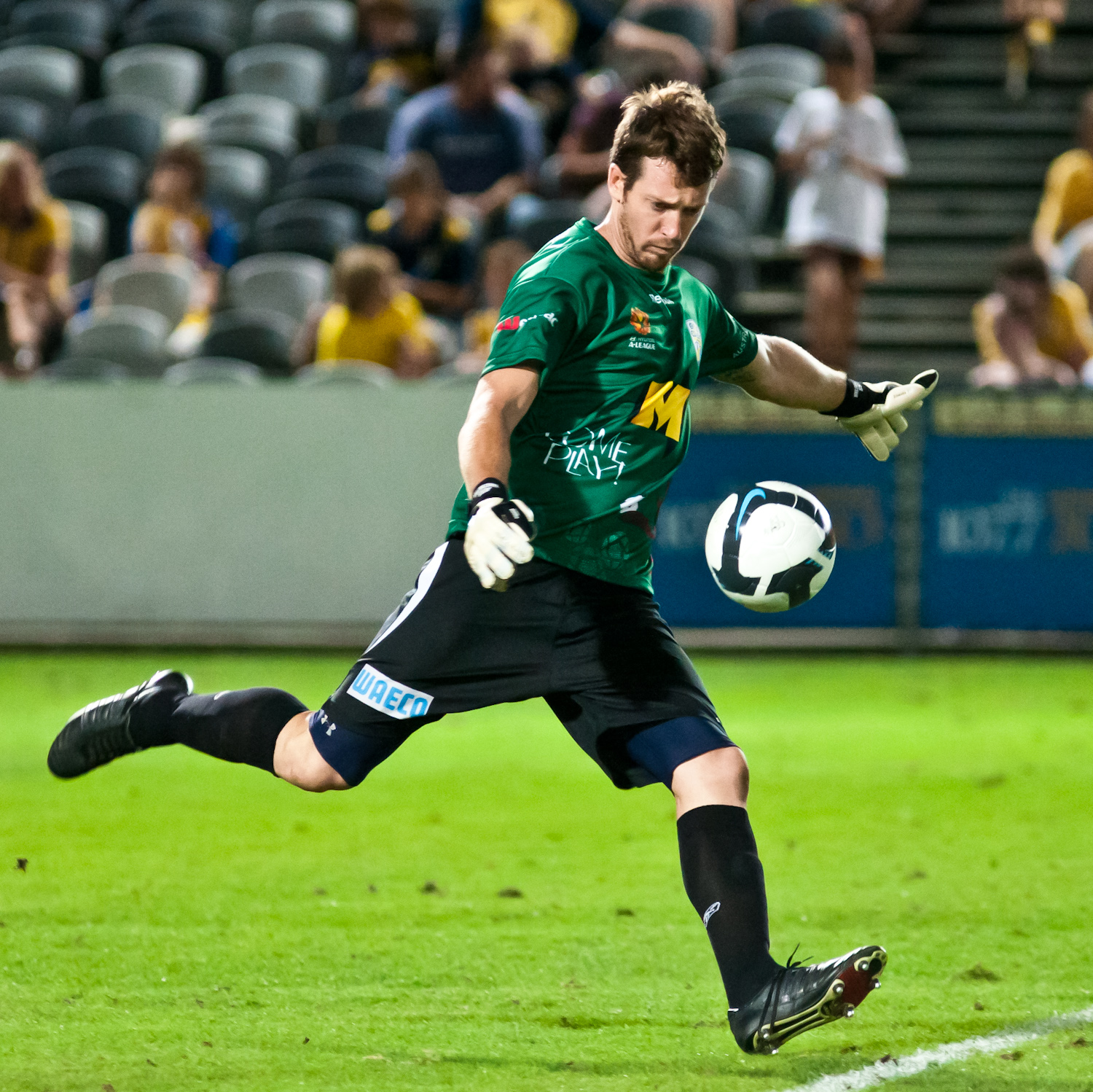 Jess Vanstrattan playing for Gold Coast United against the Central Coast Mariners in the 2009-10 A-League.